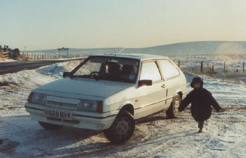 Summary Lada Samara 1500 car (my property) photographed (my camera) at Allenheads on Northumberland - Durham border, December 1992. No copyright issues arise.